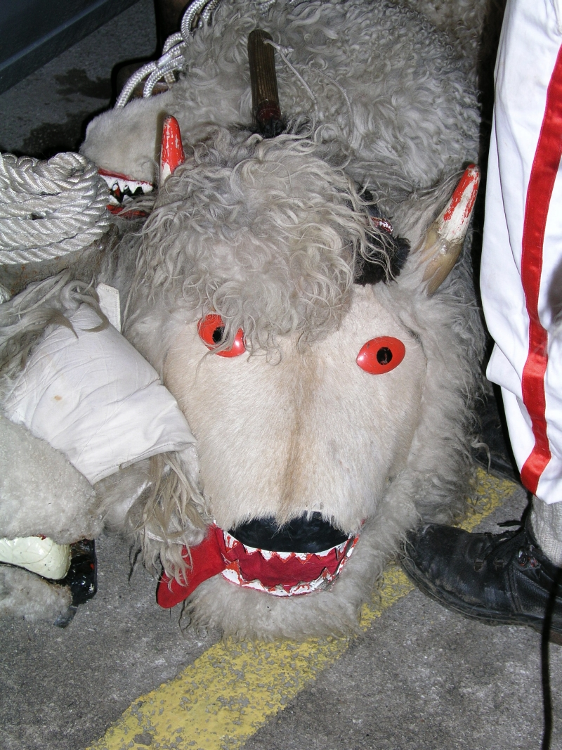 Fantastic animal head. Zvončari. Croatia.